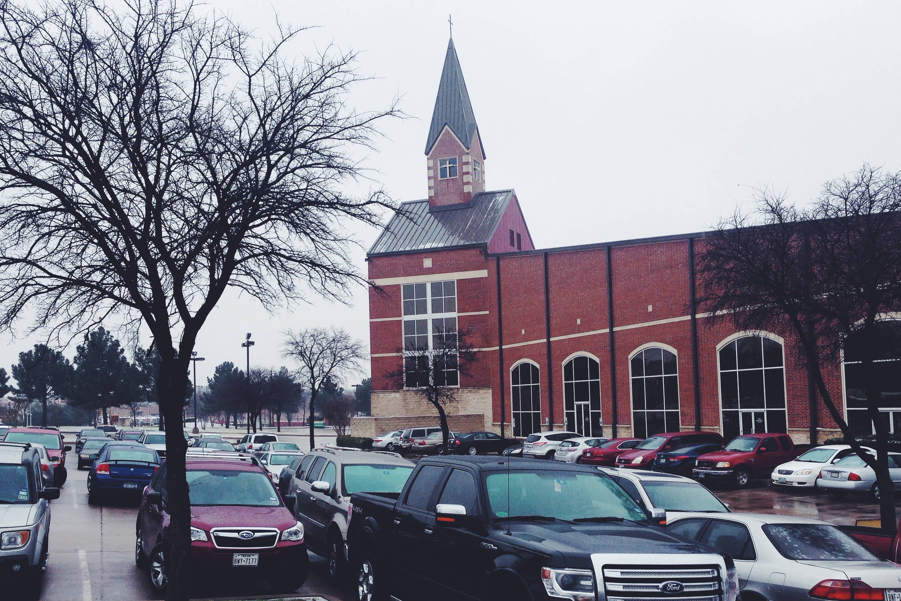 Valley View Christian Church in Dallas, TX, on Marsh Lane.